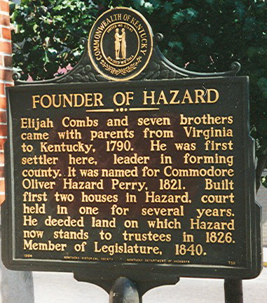 public street marker denoting Elijah Combs as the founder of Hazard and Perry County, Kentucky